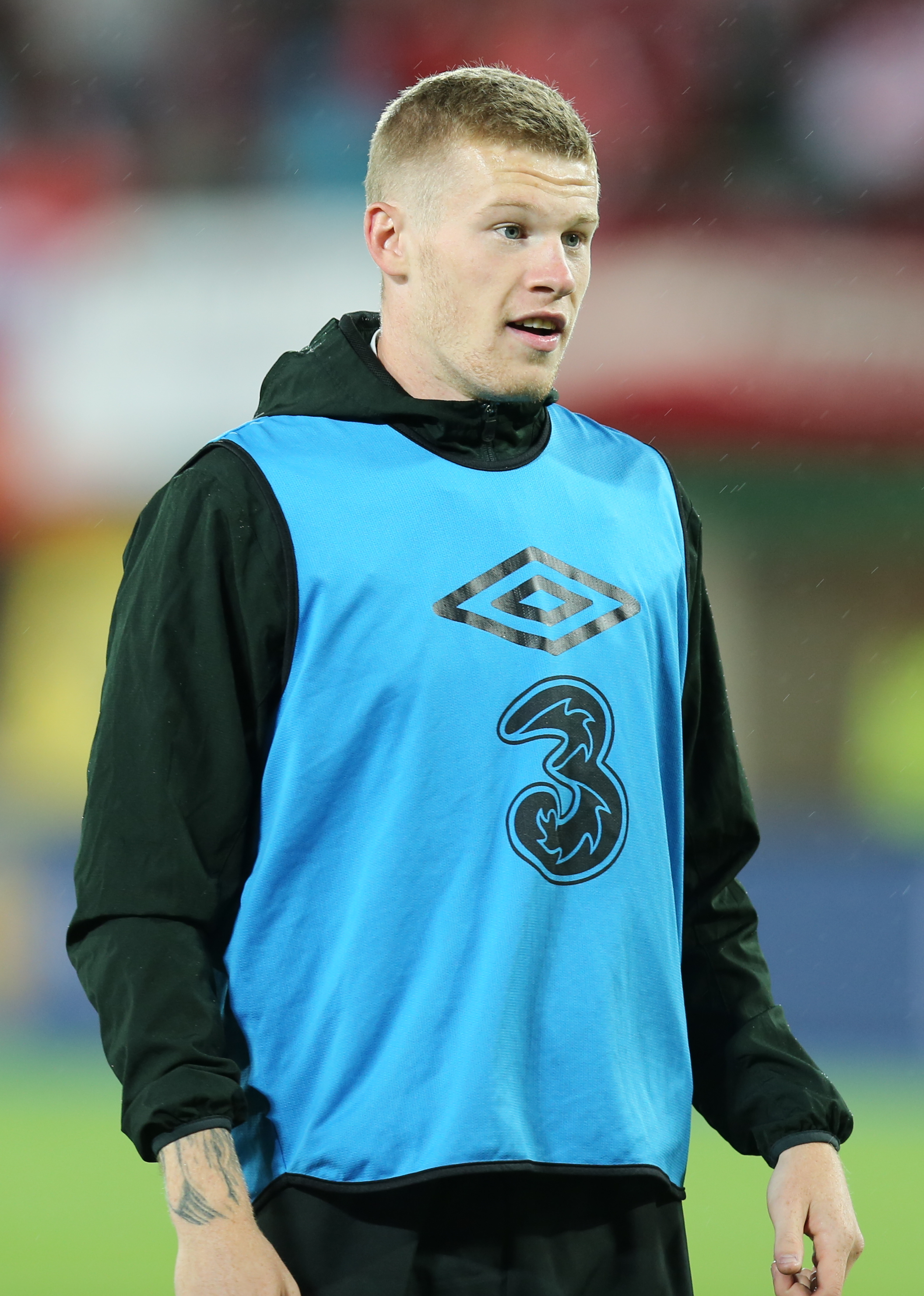 2014 FIFA World Cup qualification (UEFA), Group C: Republic of Ireland national football team at 10. September 2013 before the match against the Austria national football team (0:1) in the Ernst-Happel-Stadion in Vienna. Here:James McClean, Irish winger. The making of this work was supported by Wikimedia Austria. For other files made with the support of Wikimedia Austria, please see the category Supported by Wikimedia Österreich.